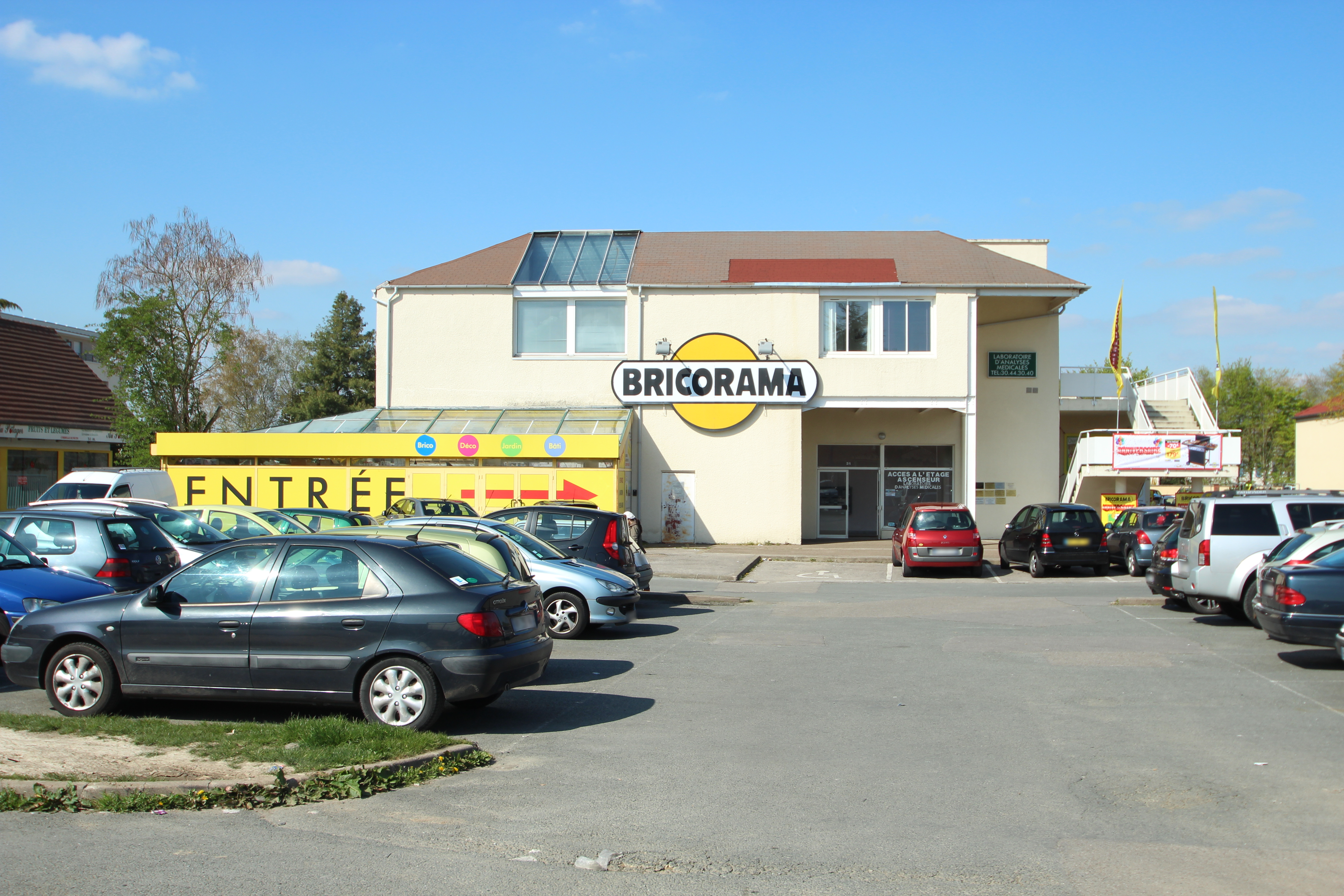 Shop in Voisins-le-Bretonneux, France. Object location48° 45′ 22.54″ N, 2° 03′ 11.38″ E View all coordinates using: OpenStreetMap - Google Earth This picture as been uploaded as part of L'Été des régions Wikipédia.